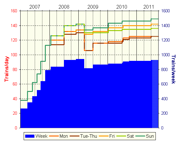 Daily, weekly frequency of normal scheduled Taiwan High Speed Rail Corporation (THSRC) train services. Extra trains during holidays and cancellations due to extraordinary events not shown